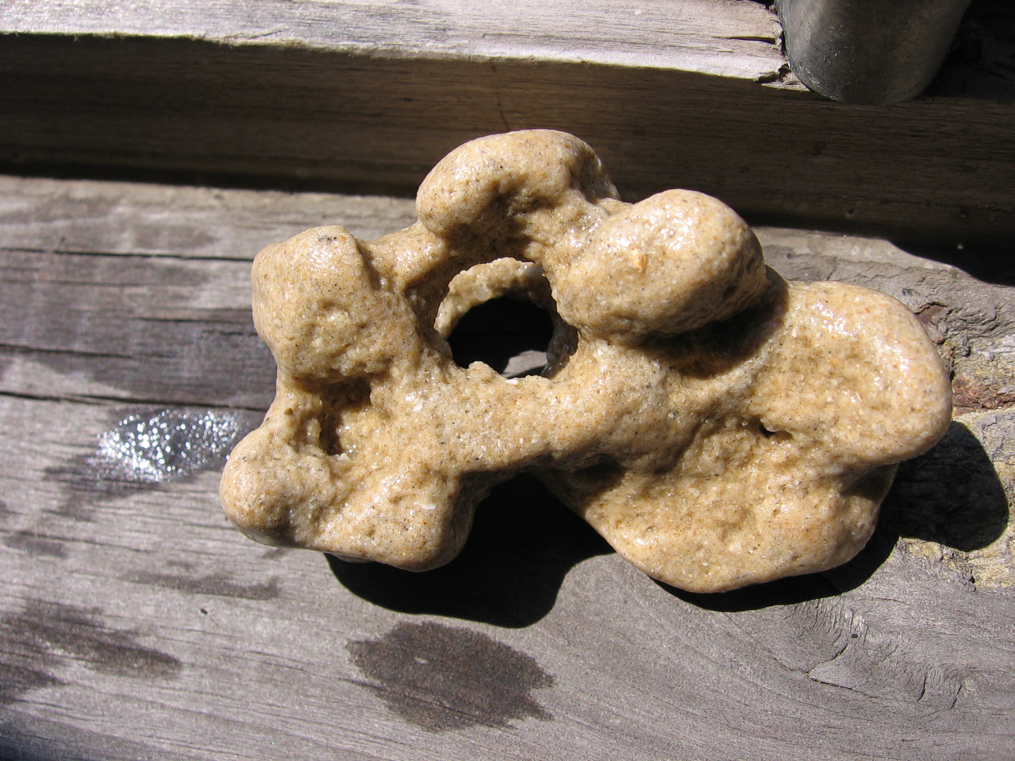 sand fossil